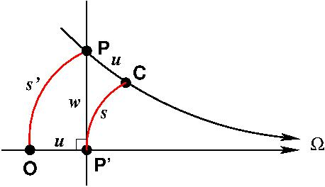 Lobachevsky coordinates for horocyclic arcs.